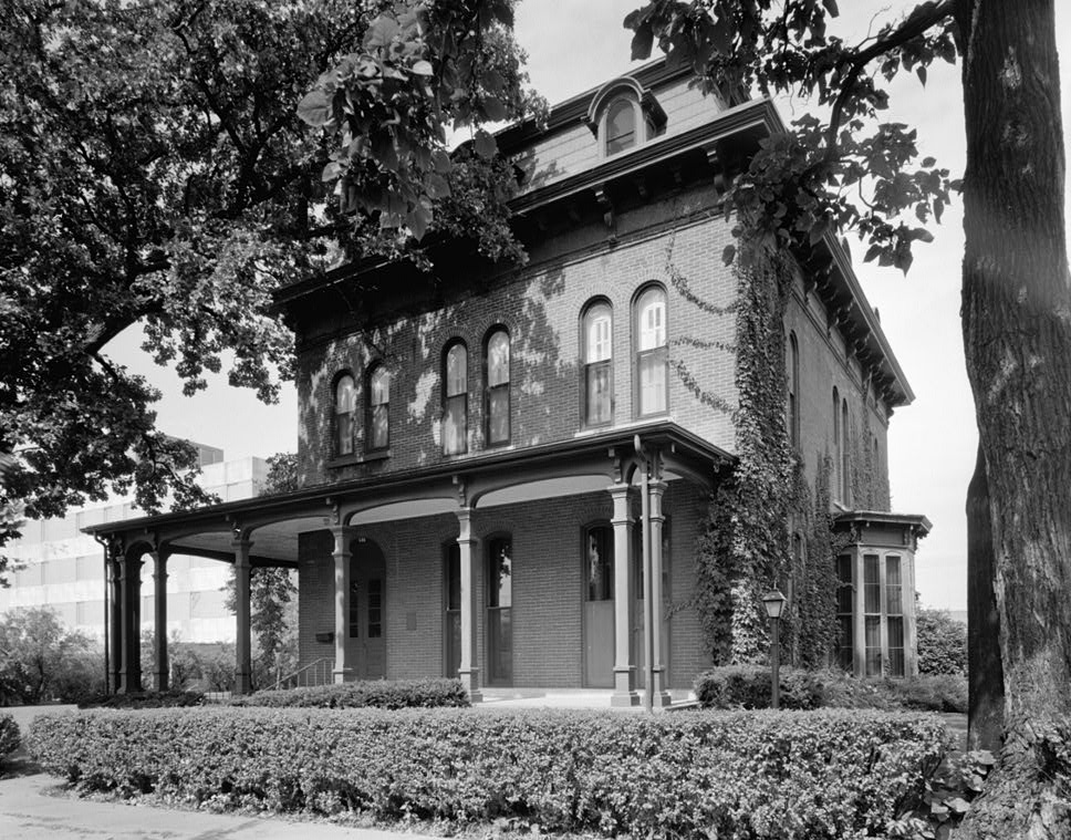 Front of the Vincent House, located at 824 Third Avenue South in Fort Dodge, Iowa, United States. Built in 1871, it is listed on the National Register of Historic Places.